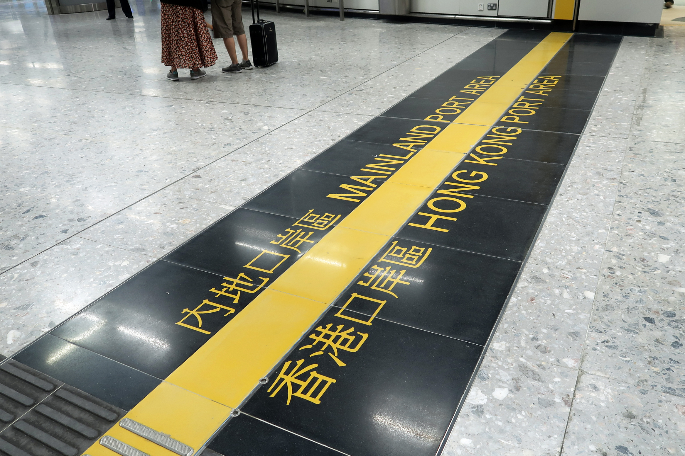 Border between Hong Kong Port Area and Mainland Port Area at HK West Kowloon Station